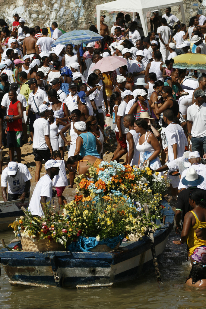 Offerings for the goddess of the ocean, lemanjá, Rio Vermelho, Salvador, Brazil. The culture of the city of Salvador is heavily influenced by African elements originally brought to Brazil by slaves, including food, dress, religion, music, etc.